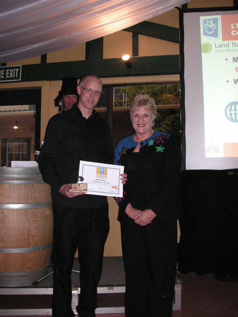 Hon Annette King (Transport Minister) presenting 2007 Cycle Friendly Award (business category) to Rick Houghton (representing MWH)